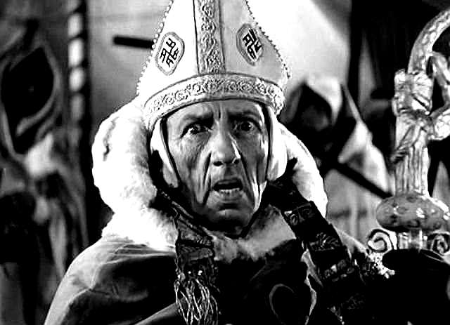 Lev Fenin as a bishop of the Teutonic Order in the film Alexander Nevsky by Sergey Eisenstein. Note the swastika-like symbol on the bishop's mitre.